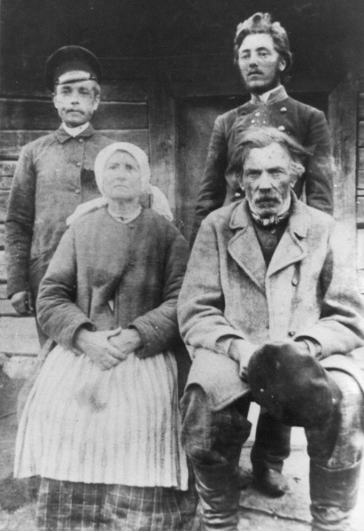 Povilas Višinskis (top right) with brother Dominykas, mother Magdalenos and father Adomo